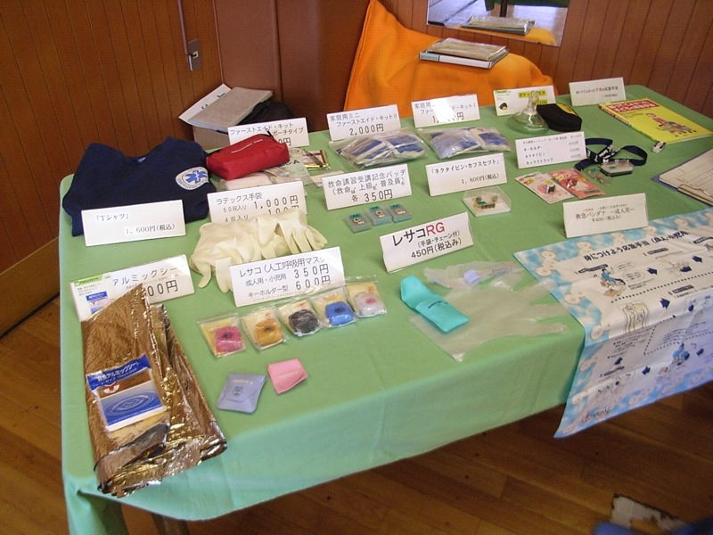 First Aid items sold at the BLS(Basic Life Support=lifesaving) class hosted by Tokyo Emergency First-Aid Association. Items from front row left: Aluminum Sheet,disposable adult/infant CPR mask in a case with or without a key chain, face mask with a key chain and a pair of gloves, cotton badanna (CPR procedure printed on it, can be used as a bandage), latex gloves, BLS class commemoration badge, tiepin and cuff links, keychain, tiepin, cell phone lanyard?, Black T-shirt with Star of Life logo, First aid kit in a bag, First aid kit for home use, First aid items refill?, Pocket mask (CPR mask), book "Things you should know about First Aid on children."